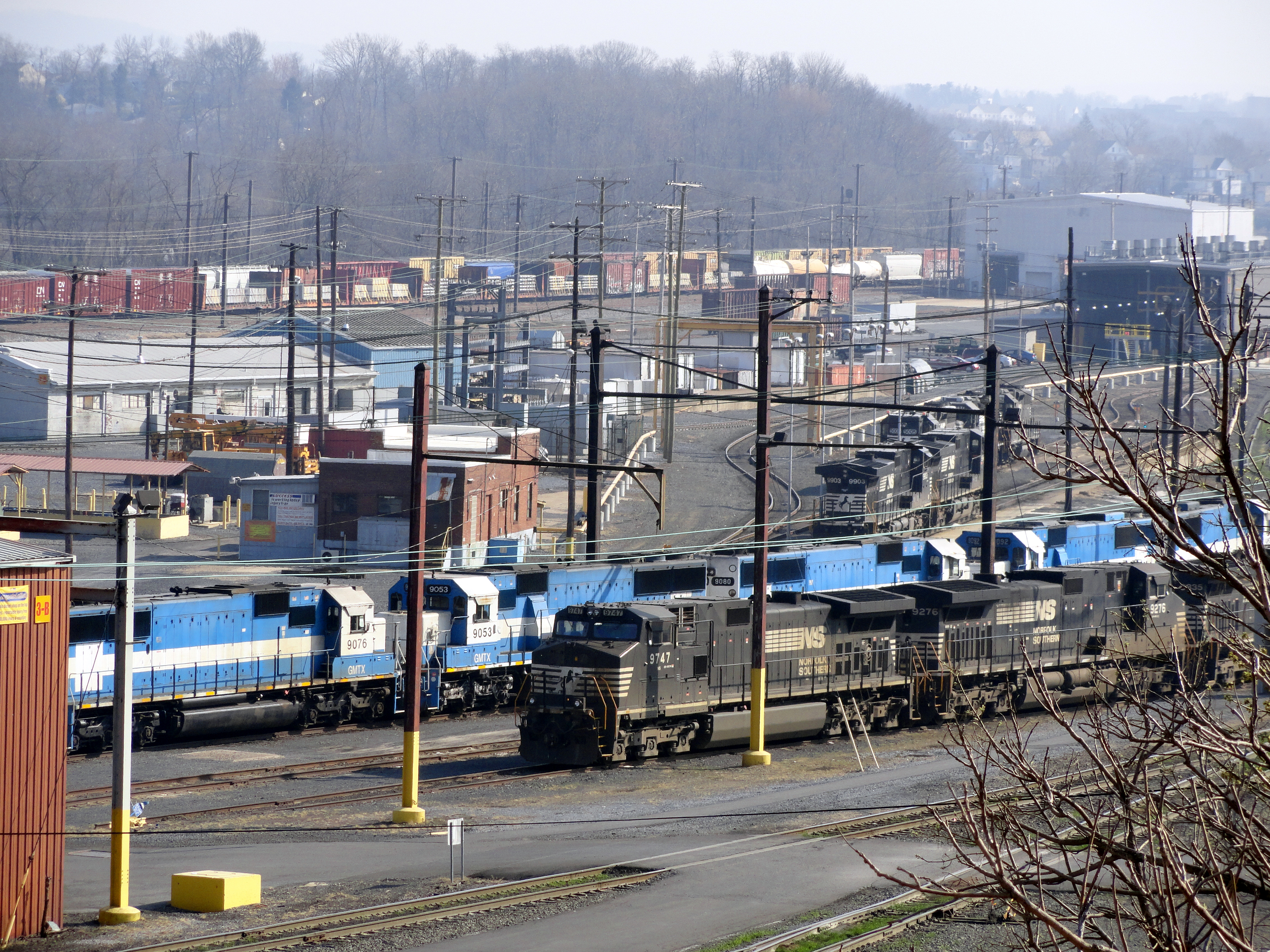 View of central terminal and service area at Enola Yard near Harrisburg, Pennsylvania, with NS locomotive no. 5005 (model GP38-2) and nos. 9903, 9276 and 9747 (model Dash 9-40CW); and GMTX locomotive nos. 9053, 9076, 9080 and 9092 (model SD60).